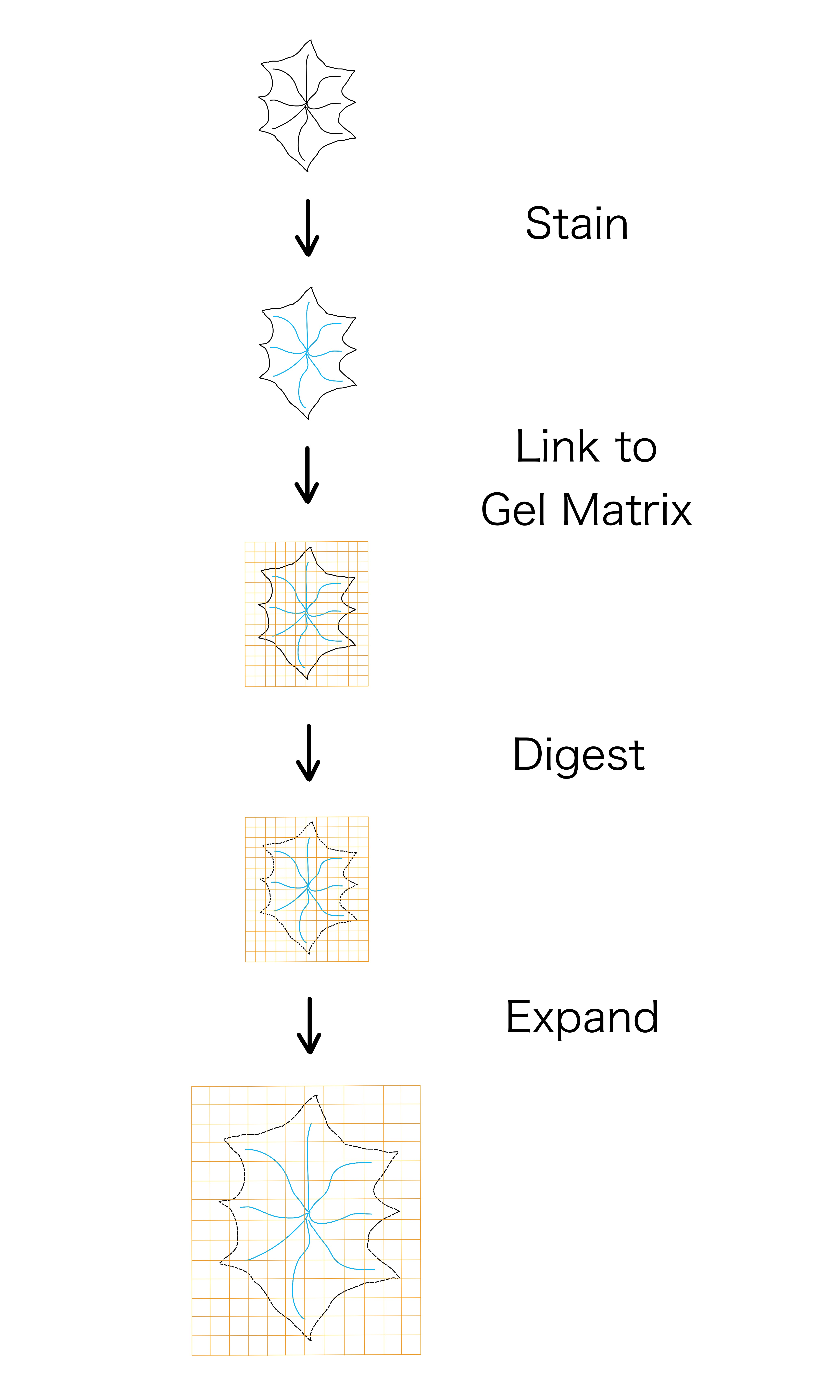 The 4-step prosses of a simplified expansion microscopy protocol is to stain, link gel to the matrix, digest, and expand. Each of these steps must complete fully, or the cell will not yield a bright and clear stain. Failure to complete these steps can result in the breaking of the cell or uneven expansion, distorting the image beyond use.